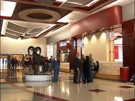 Owasso High School (Interior)